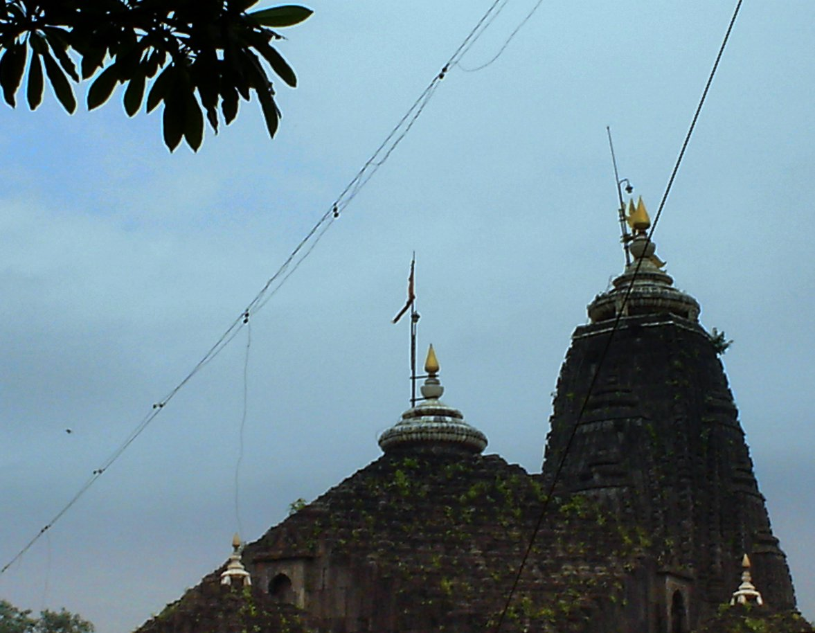 Trimbakeshwar Shiva Temple, near Nashik Ekabhishek 10:44, 12 September 2007 (UTC)